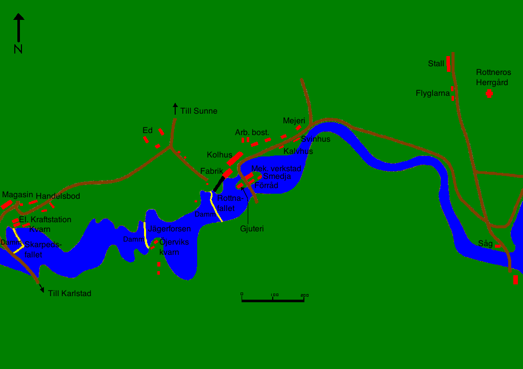 Map over the buildings, dams and waterfalls of Rottnan in Rottneros, Värmland, Sweden around 1900.